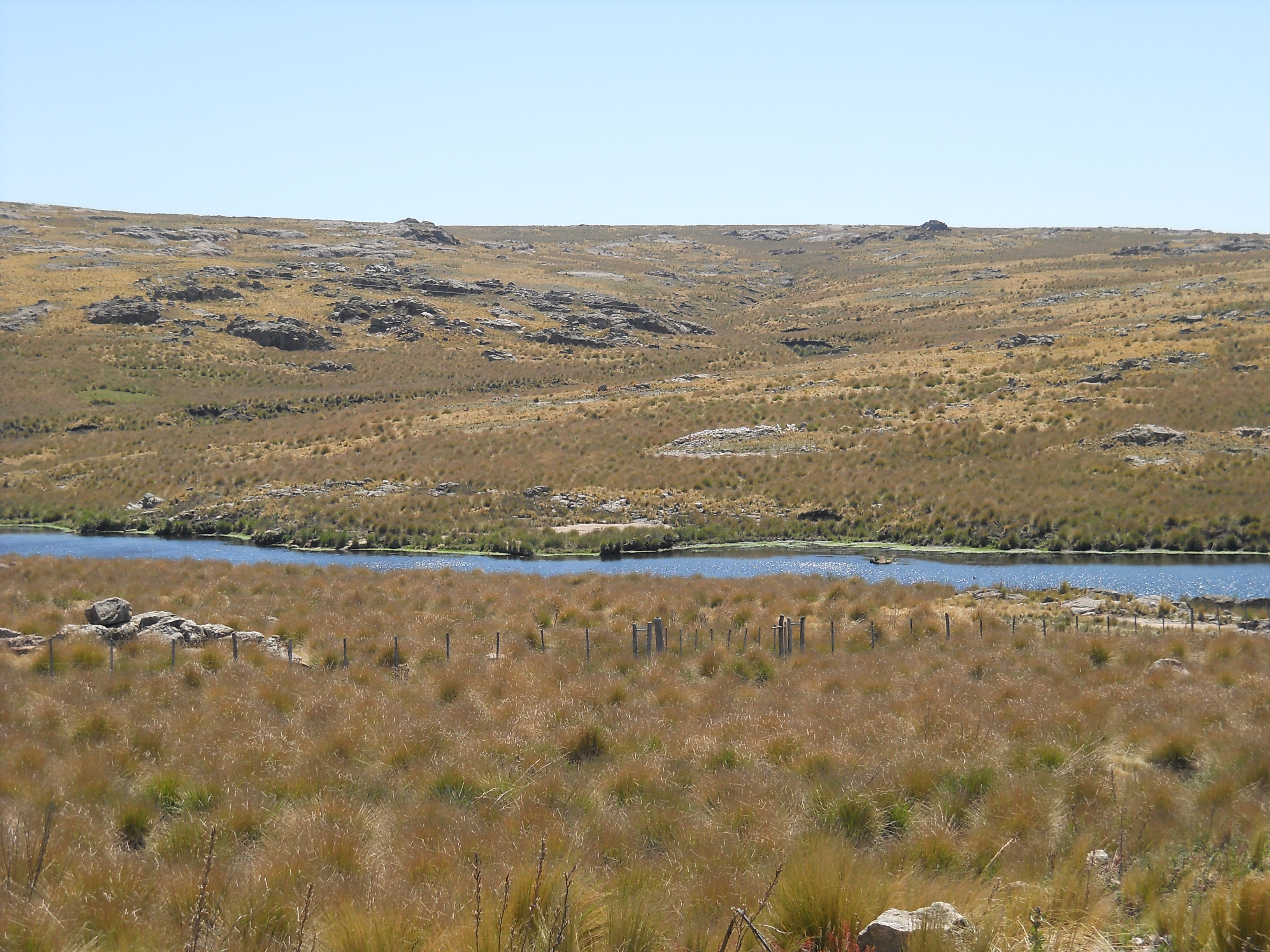 Small lakes provide water to the subsoil